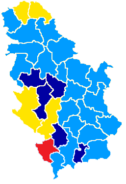 Serbian parliamentary election,2007 - distribution of vote by district SRS DSS DS SPS